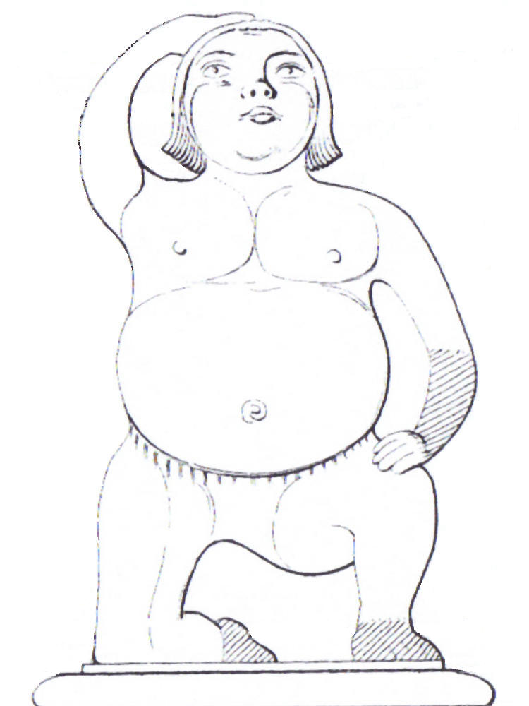 Püstrich of Sondershausen